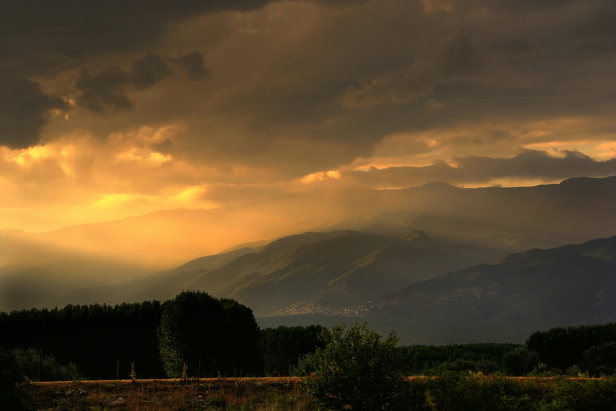 View of village Ano Poroia